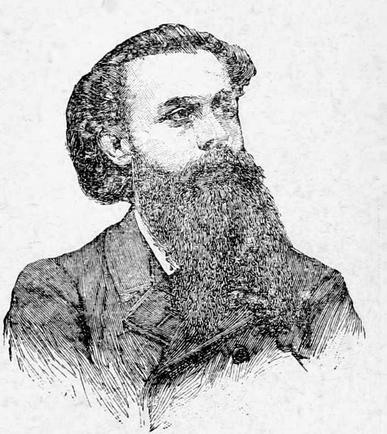 "Duc-Quercy".